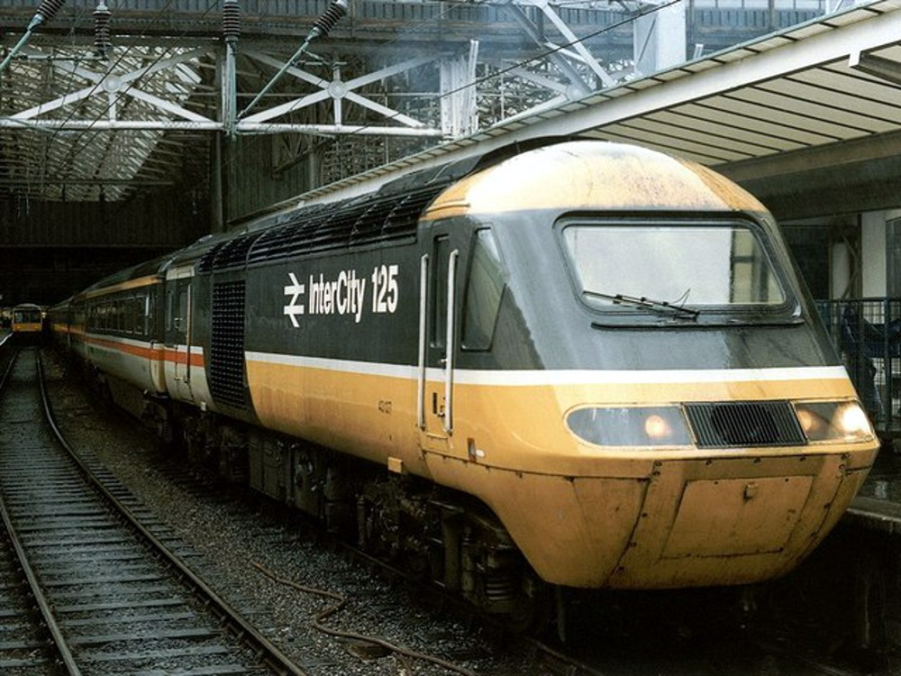 A very wet day at Manchester Piccadilly. A HST set, top and tailed with 43127/43170, is about to leave. A Heritage set stands alongside.